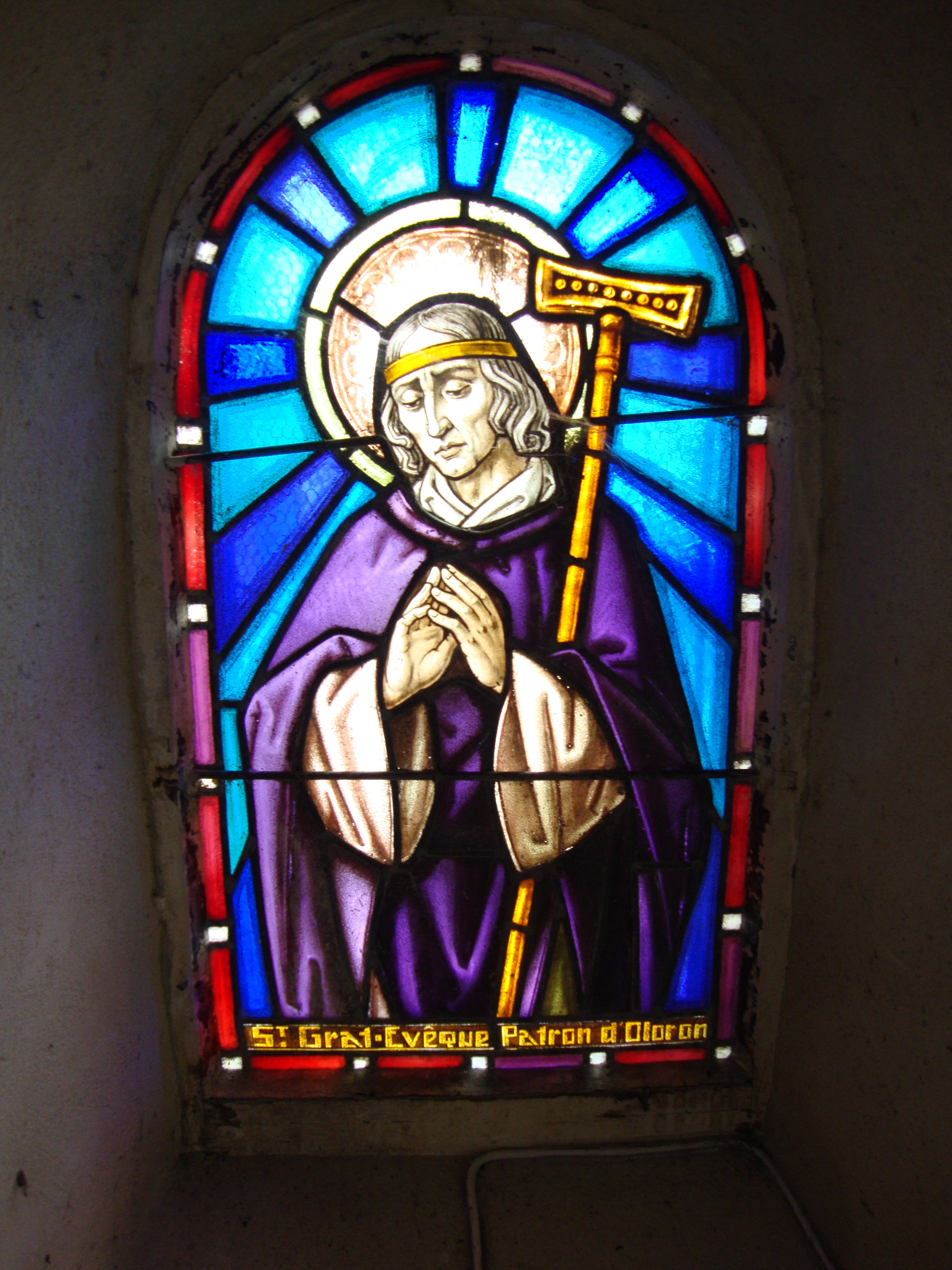 Issor (Pyr-Atl, Fr) Church St.John the Evangelist stained glass window 7, Saint Grat, bishop, patron saint of Oloron